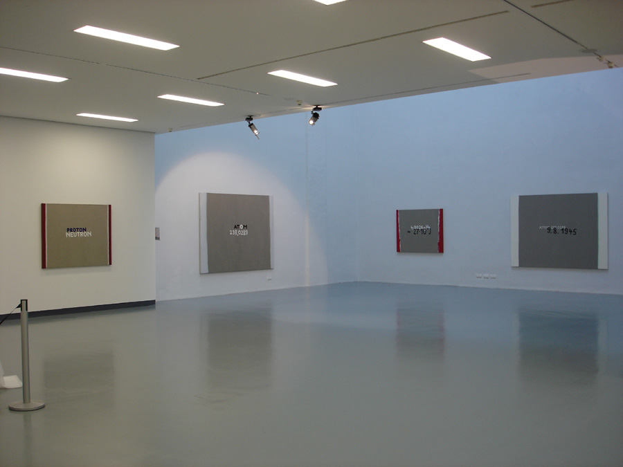 Exhibition View 2006